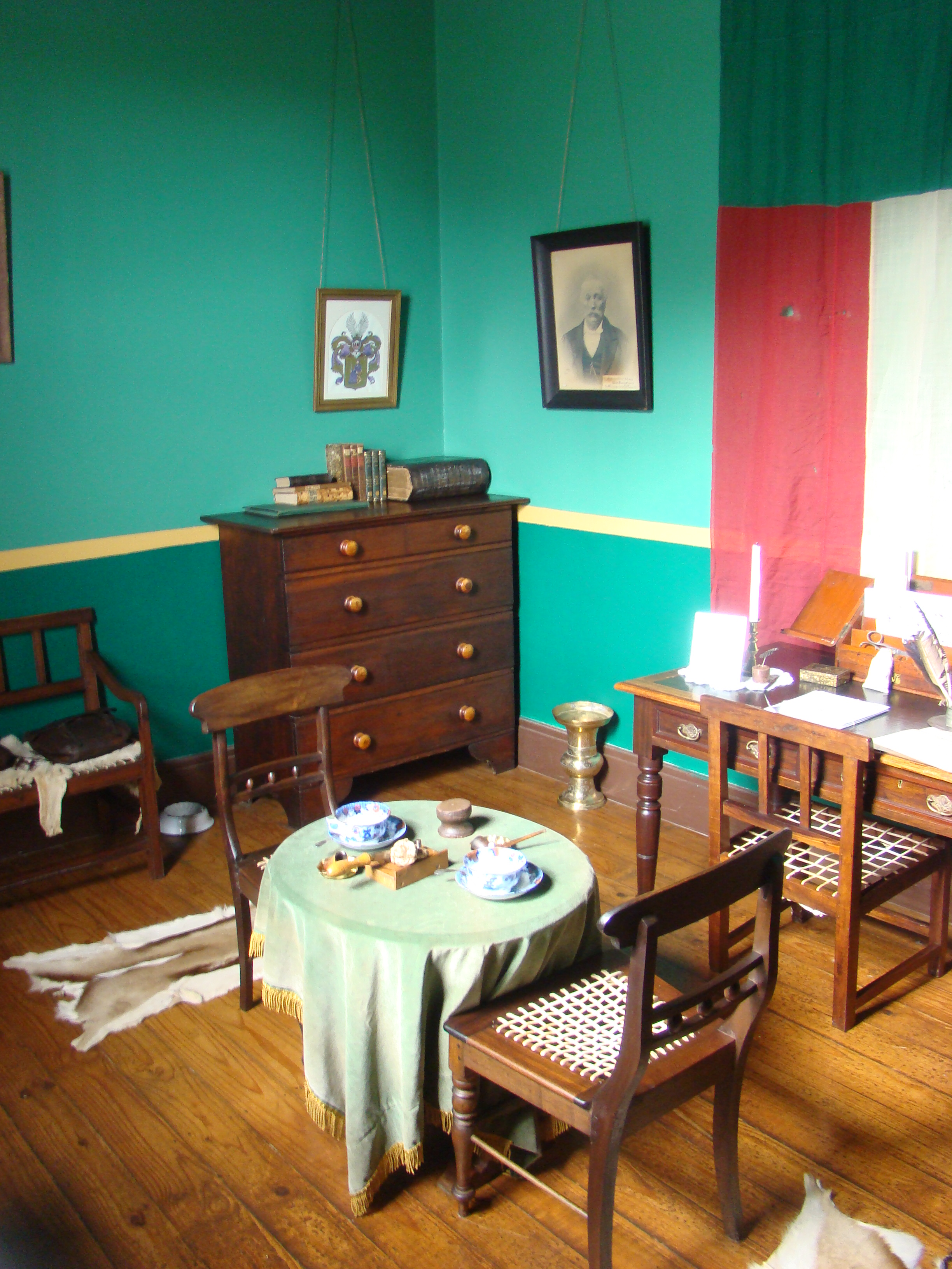 Study in the house of MW Pretorius,Potchefstroom,that served as the office of the president from 1857 until 1871